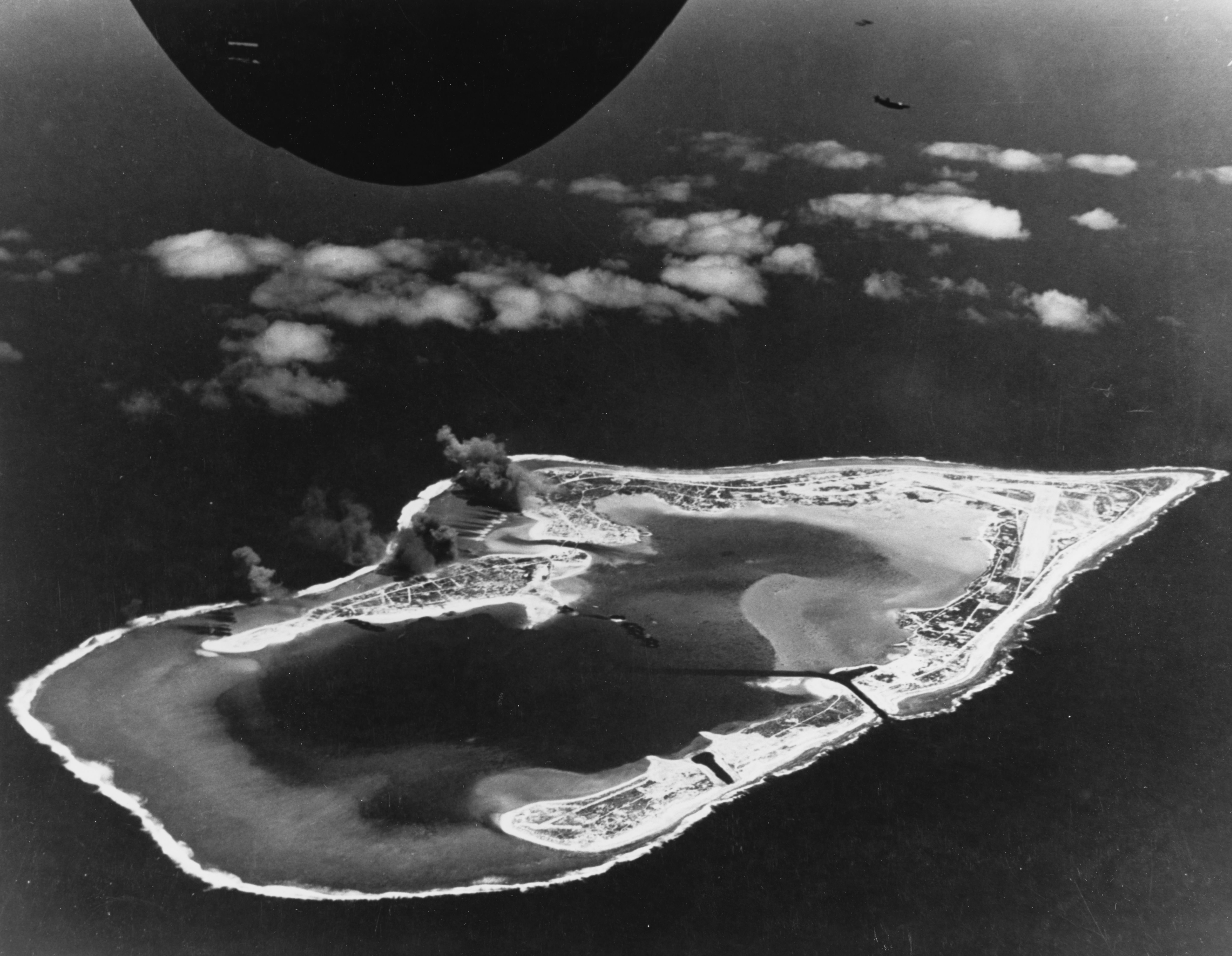 Wake Island under attack by U.S. Army Air Forces Consolidated B-24 Liberator bombers on 23 March 1944, as seen from one of the planes.